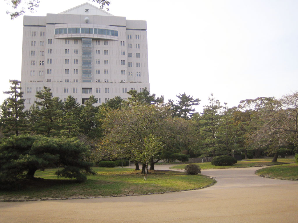 Toyohashi Park (豊橋公園), located at Imabashicho, Toyohashi, Aichi, Japan